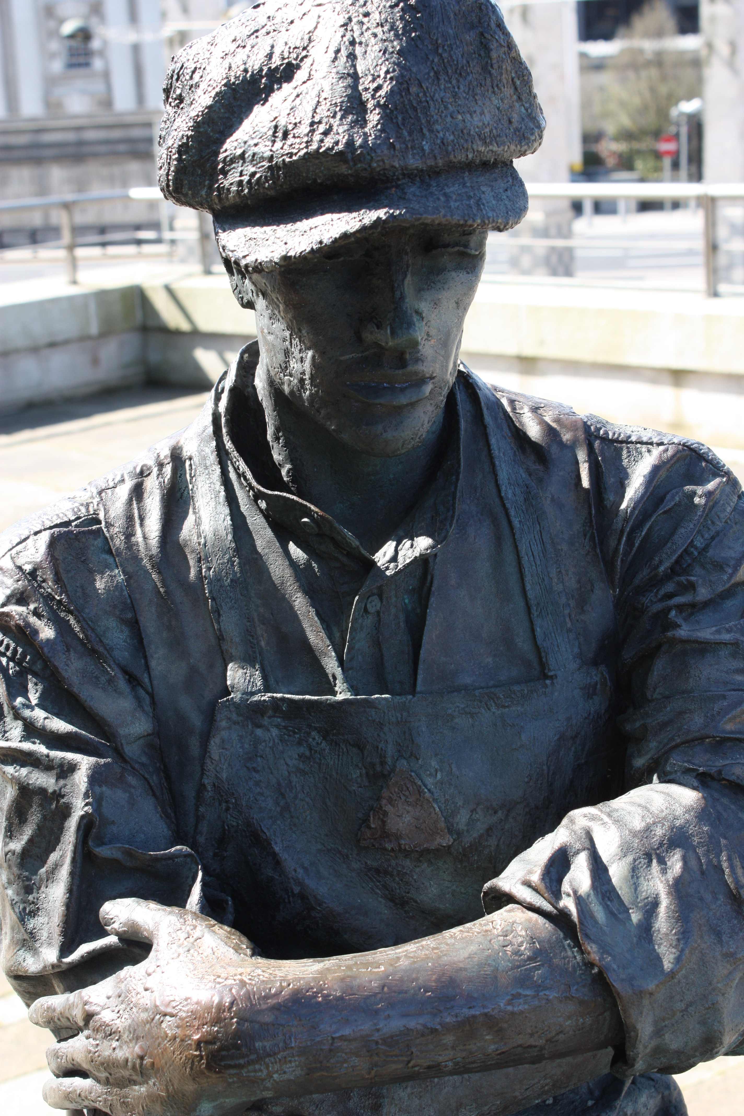 The Ulster Brewer (sculpture by Ross Wilson, 1997), Lanyon Place, Belfast, Northern Ireland, April 2010